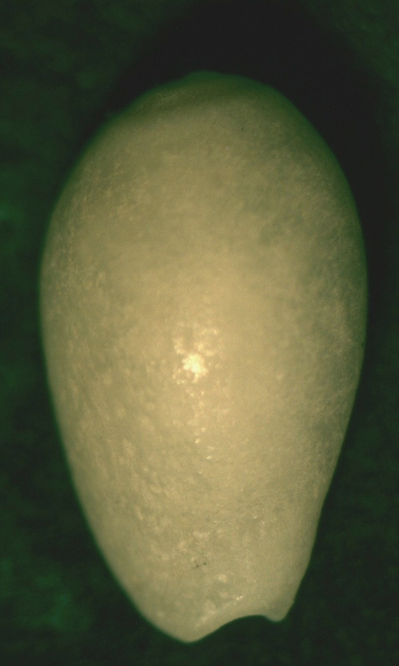 Gibberula secreta Monterosato, 1889, a sea snail in the family Cystiscidae